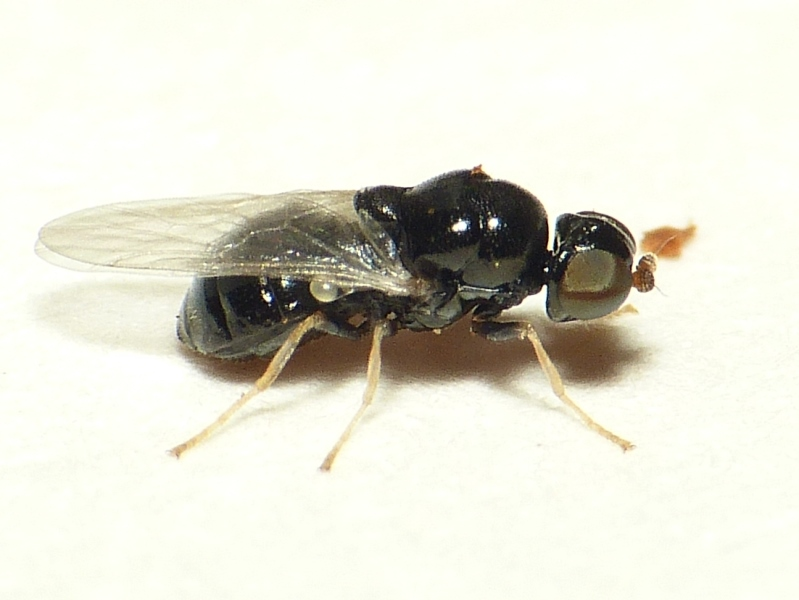 Zabrachia tenella ex pupa, location: The Netherlands - Rhenen - Grebbeberg